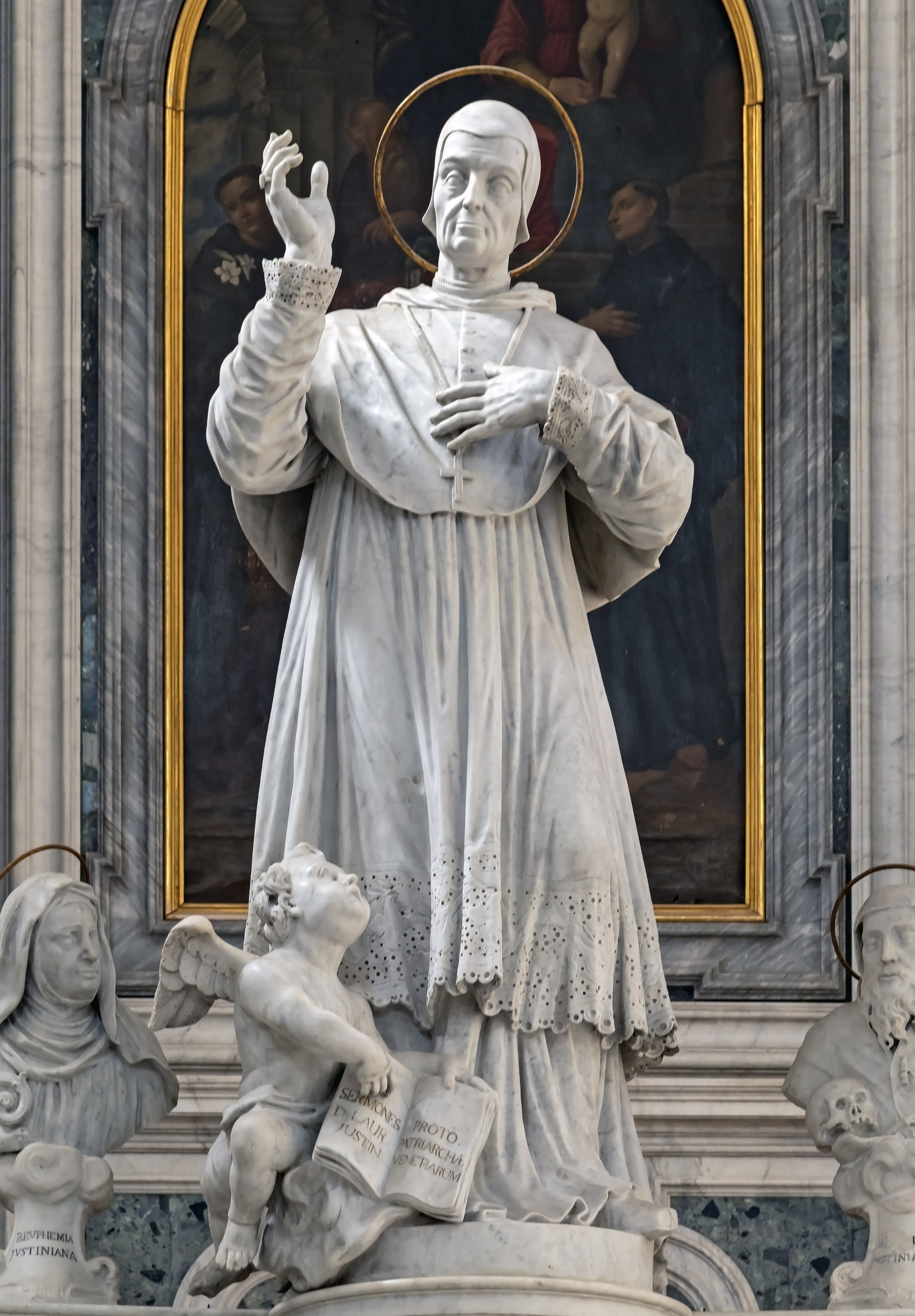 The third chapel is dedicated to San Lorenzo Giustiniani. The altar was commissioned by Bishop Nicolò Antonio Giustiniani in honor of his holy ancestor. The statue of the Saint, two angels and small busts of the saints of the family Giustiniani by Felice Chiereghin.